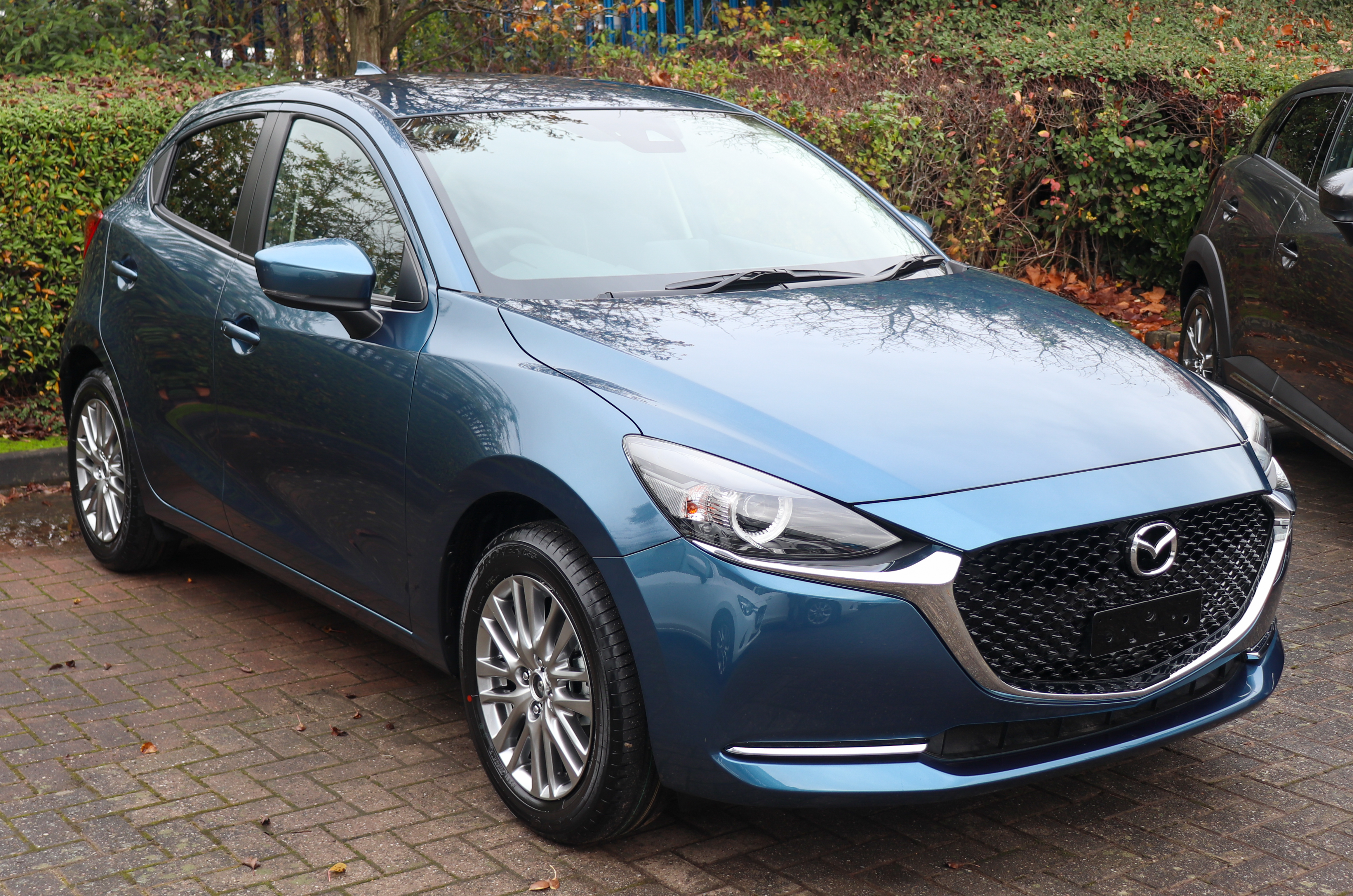 2019 Mazda2 Sport Nav Front Taken in Leamington Spa